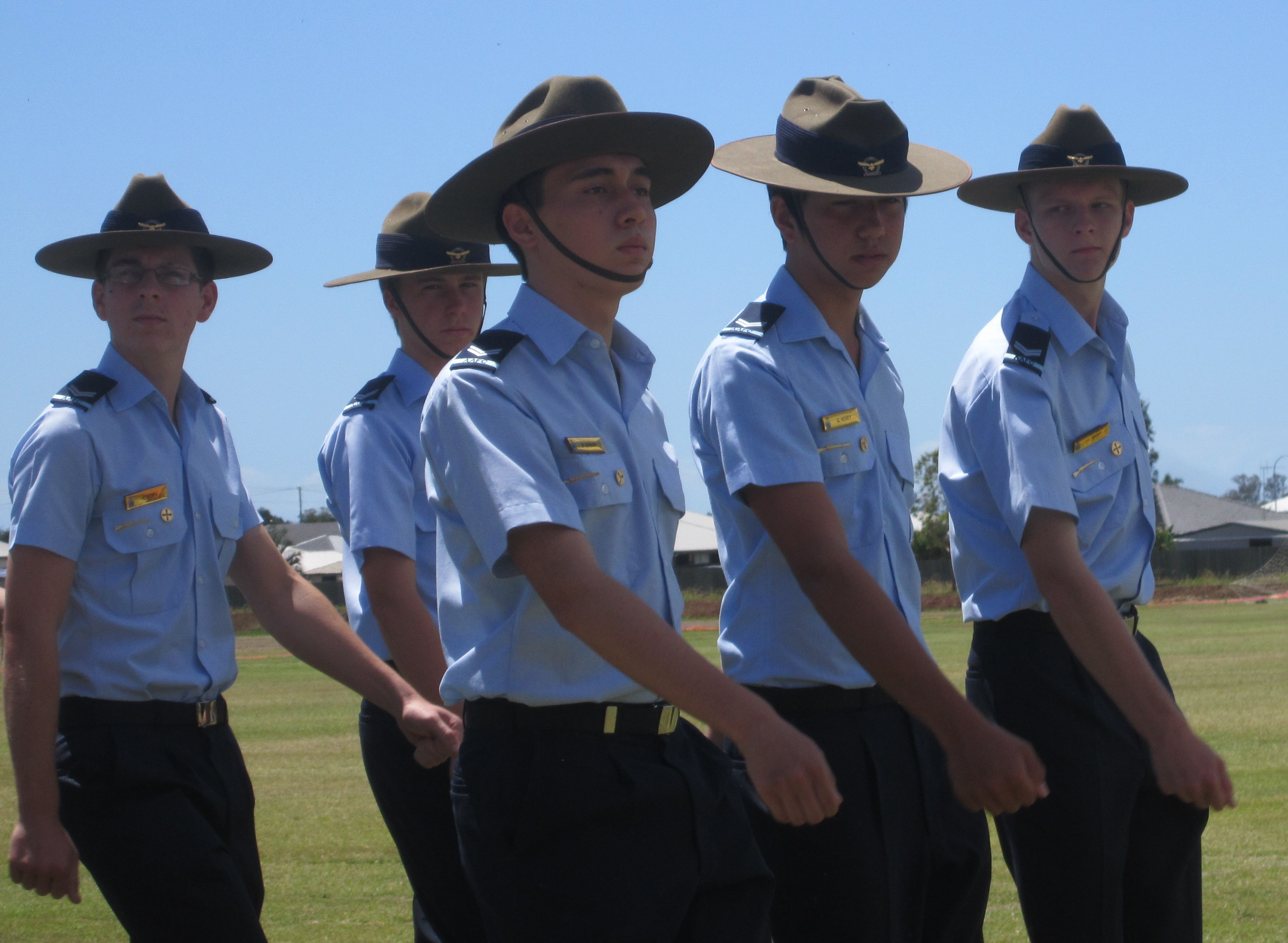 Cadets performing drill practice. Closet is CCPL Benjamin Bishop